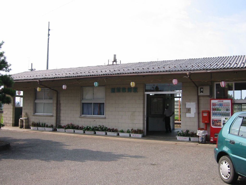 West Japan Railway Company Etsumi-Hoku Line, Echizen-Tōgō Station